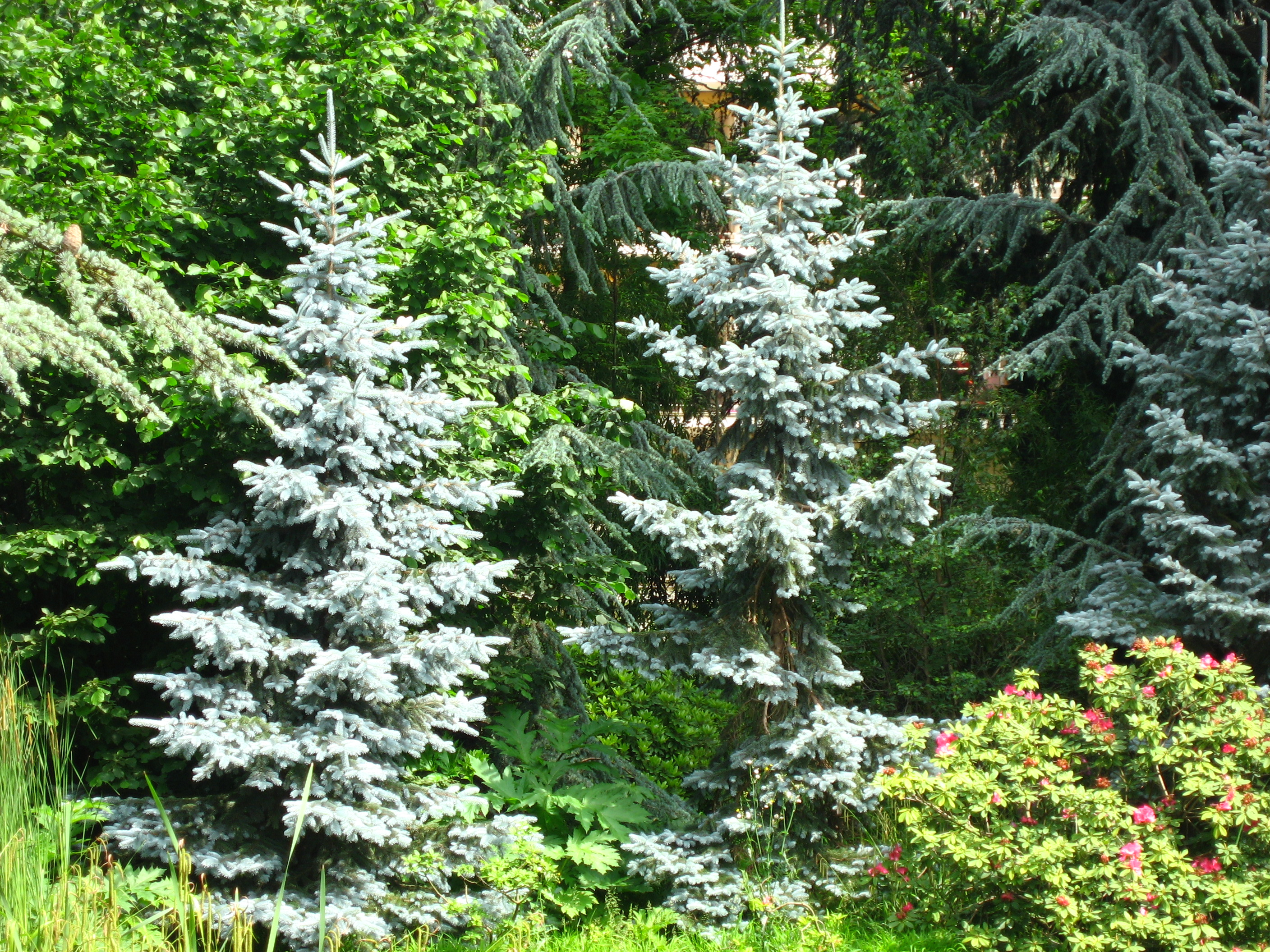 Epicéa bleu du Colorado de Koster (Picea pungens 'Kosteriana Glauca') in the Village bleu of Jardin du Musée Albert-Kahn Map: 48° 50' 30" N 2° 13' 40" E